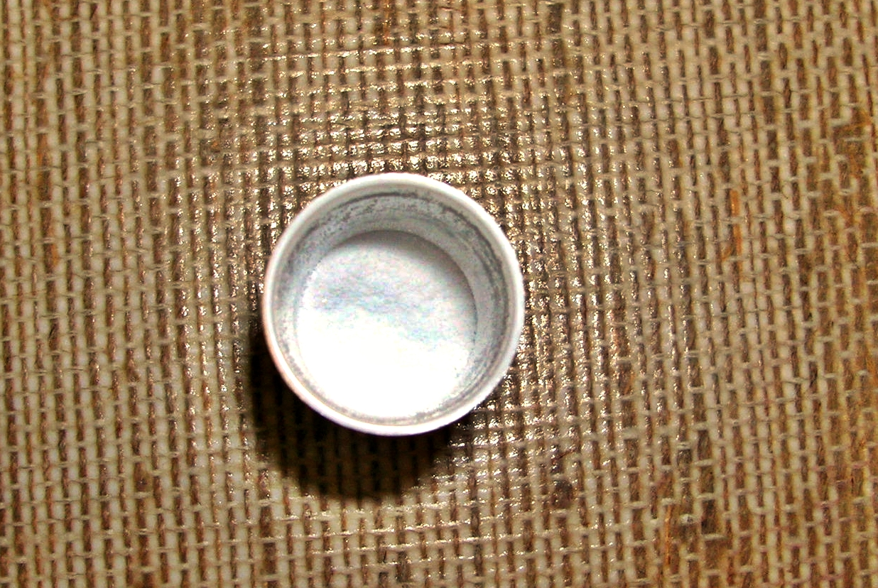 Scopolamine hydrobromide